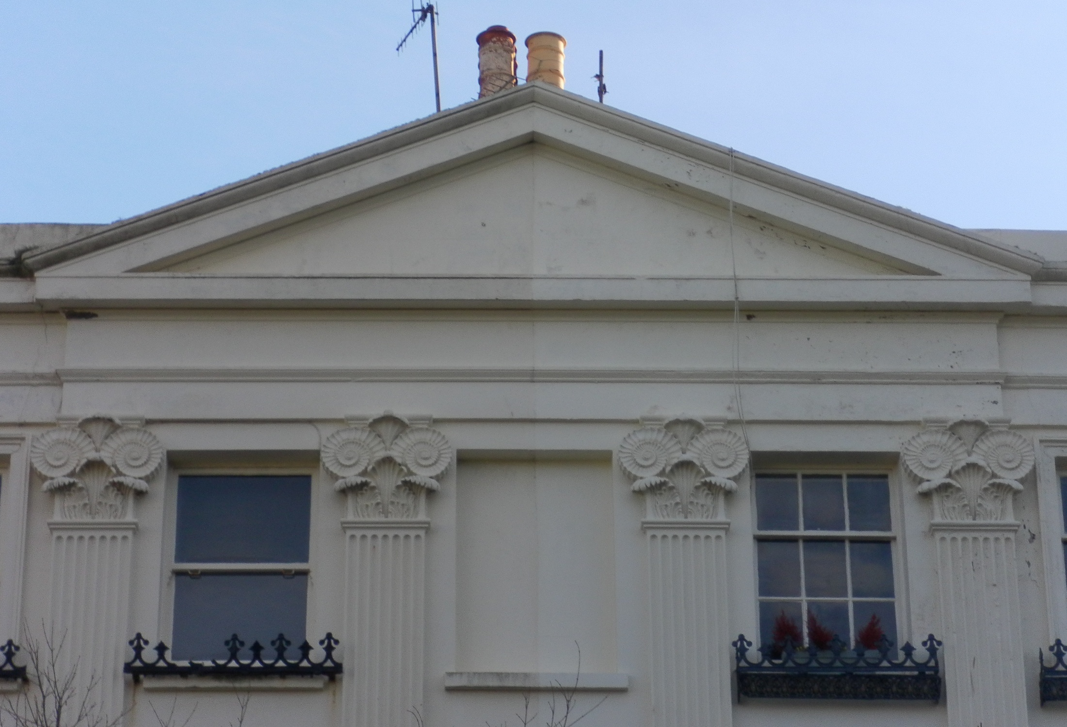 Ammonite capitals on one of the Grade II*-listed houses in the central section of Montpelier Crescent, Montpelier, City of Brighton and Hove, England.